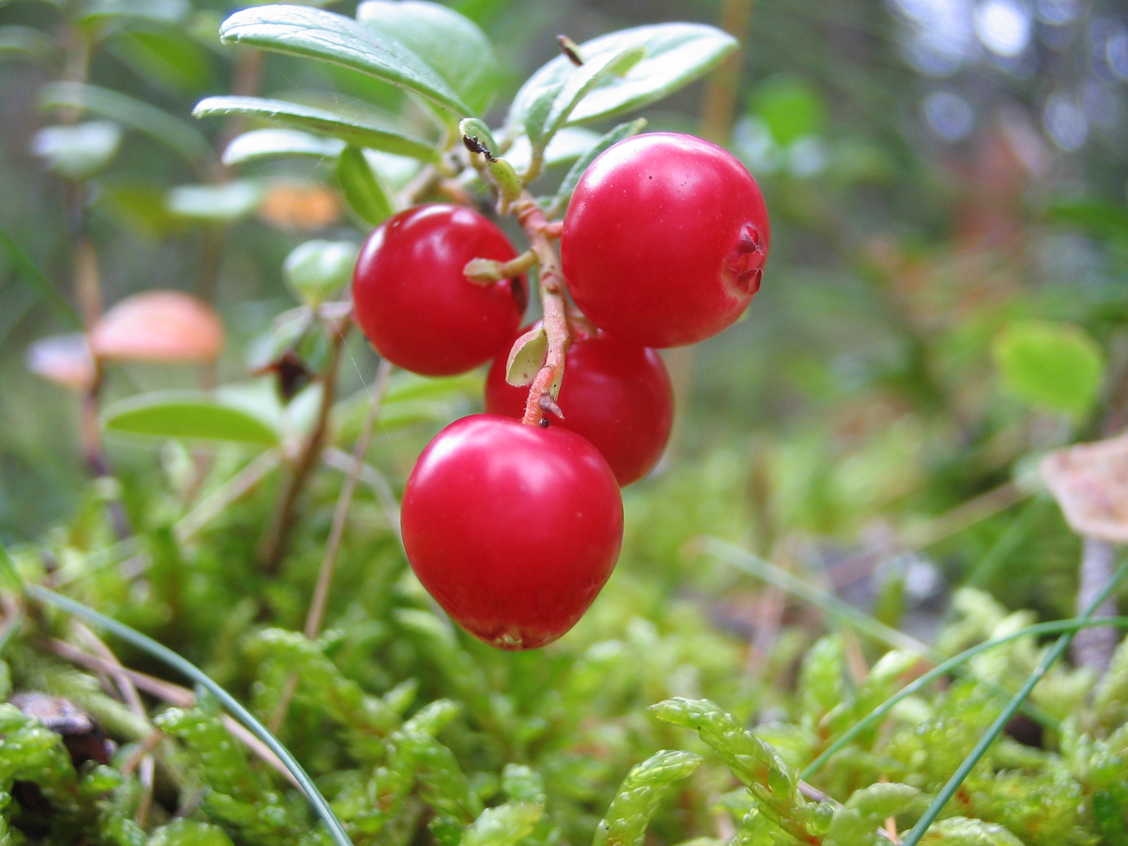 Cowberry. Uppland, Sweden.